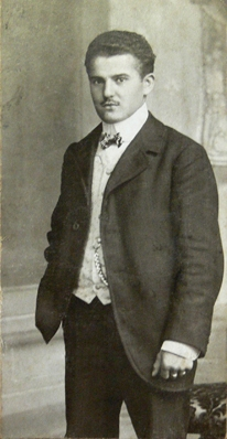 Paul Dreißig, bakery Dreißig's founder